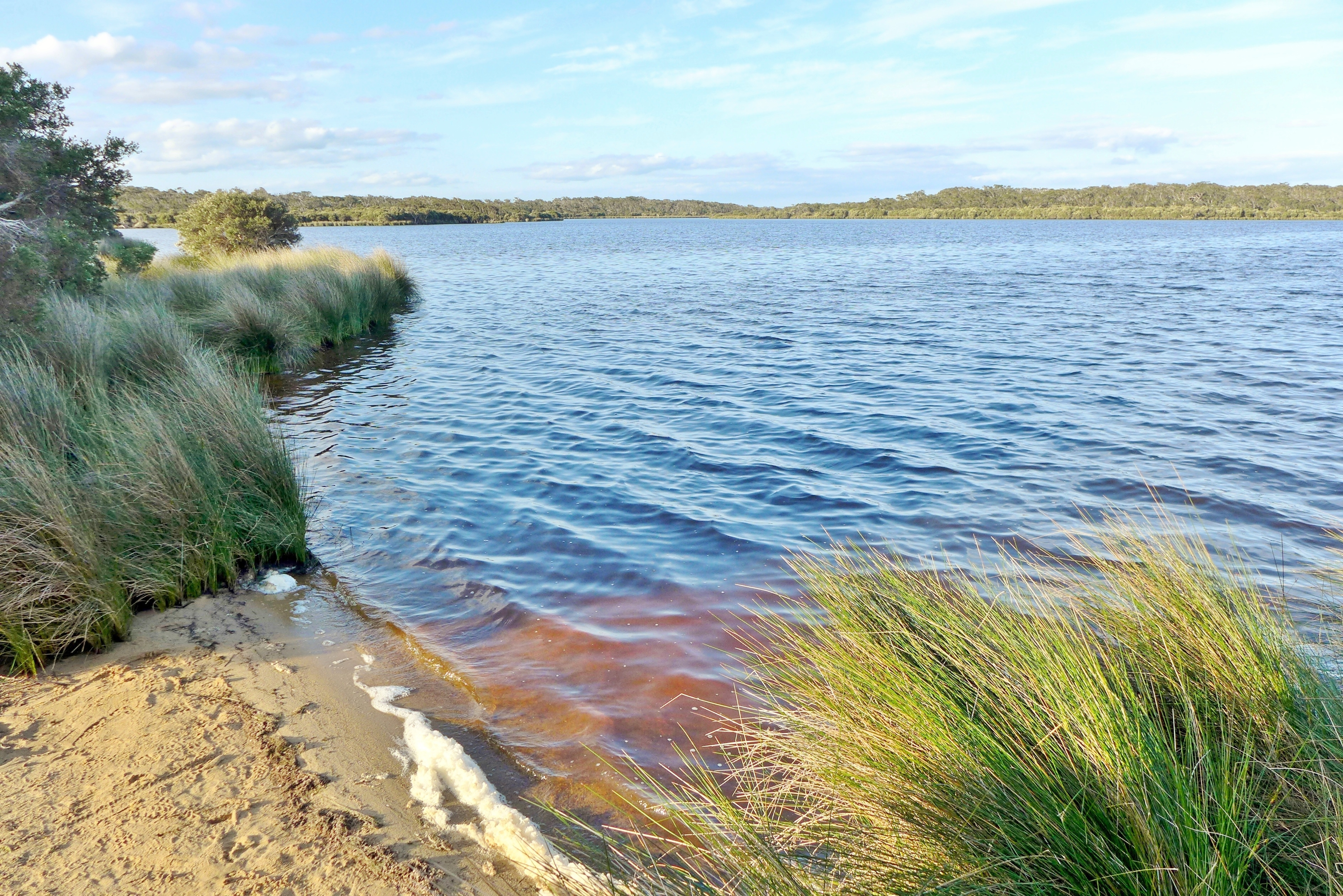 View of and from The Basin, on Molloy Island, near Augusta, Western Australia. The body of water in the image is the Scott River.